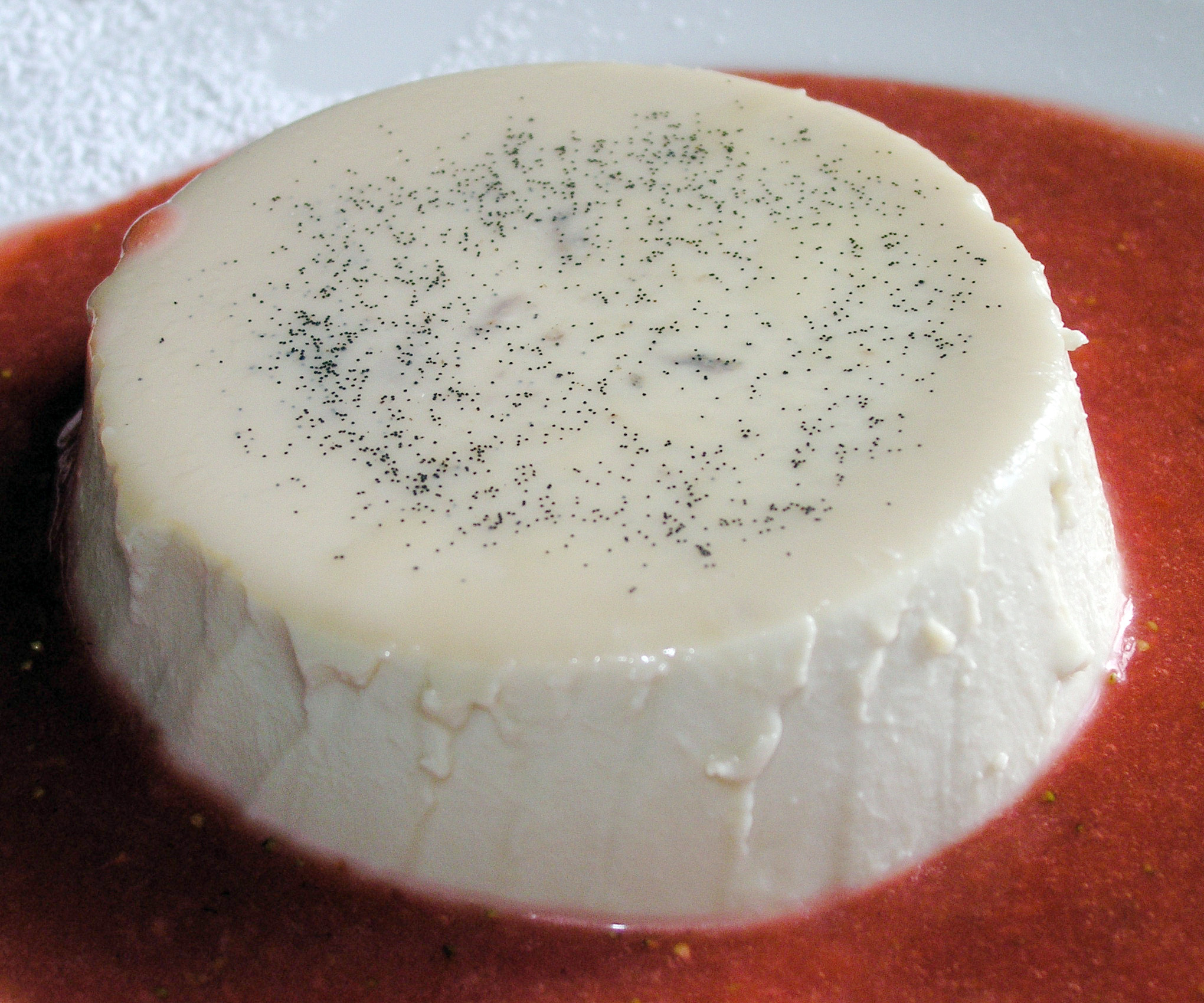 Panna cotta with strawberry sauce